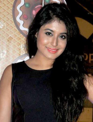 Kritika Kamra at Premiere of 'Ugly'